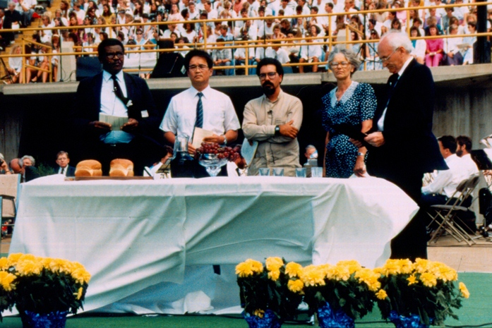 Caption: The table is set for communion. All who are in a faith relationship to Jesus Christ are invited. The officiating group is representative of the whole Mennonite faith community: Stephen Ndlovu of Africa, Hiroshi Yanada of Asia, Luis Elier Rodriguez of Central/South America, Louise Nussbaumer of Europe, and Jake Pauls of North America. Citation: Mennonite World Conference. Twelfth Mennonite World Conference, 1990, Winnipeg, Canada. Slides by T. Klassen; Script by John Dyck. X-9 Box 52 Folder 4 Slide 135. Mennonite Church USA Archives - Goshen. Goshen, Indiana.